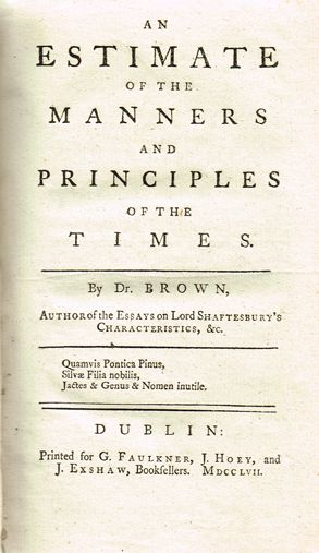 Title page of Estimate of the Manners and Principles of the Times (1757) by John Brown (1715–1766).